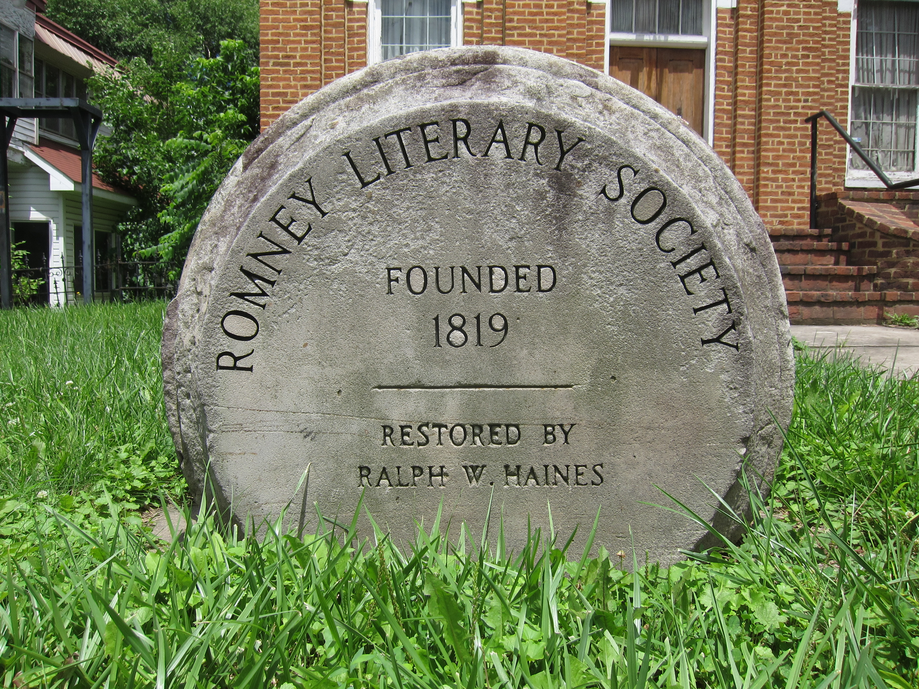 A historical marker commemorating the Romney Literary Society and the restoration of Literary Hall. Literary Hall (1870) is a 19th century brick edifice located at the corner of Main (U.S. Route 50) and High (West Virginia Route 28) Streets in Romney in the U.S. state of West Virginia. Literary Hall formerly served as the meeting place for the Romney Literary Society.